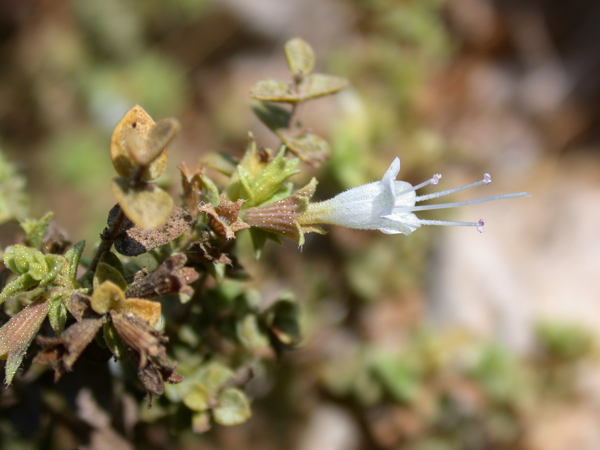 Origanum dayi Post, Northern Negev, Israel, October 14, 2006.